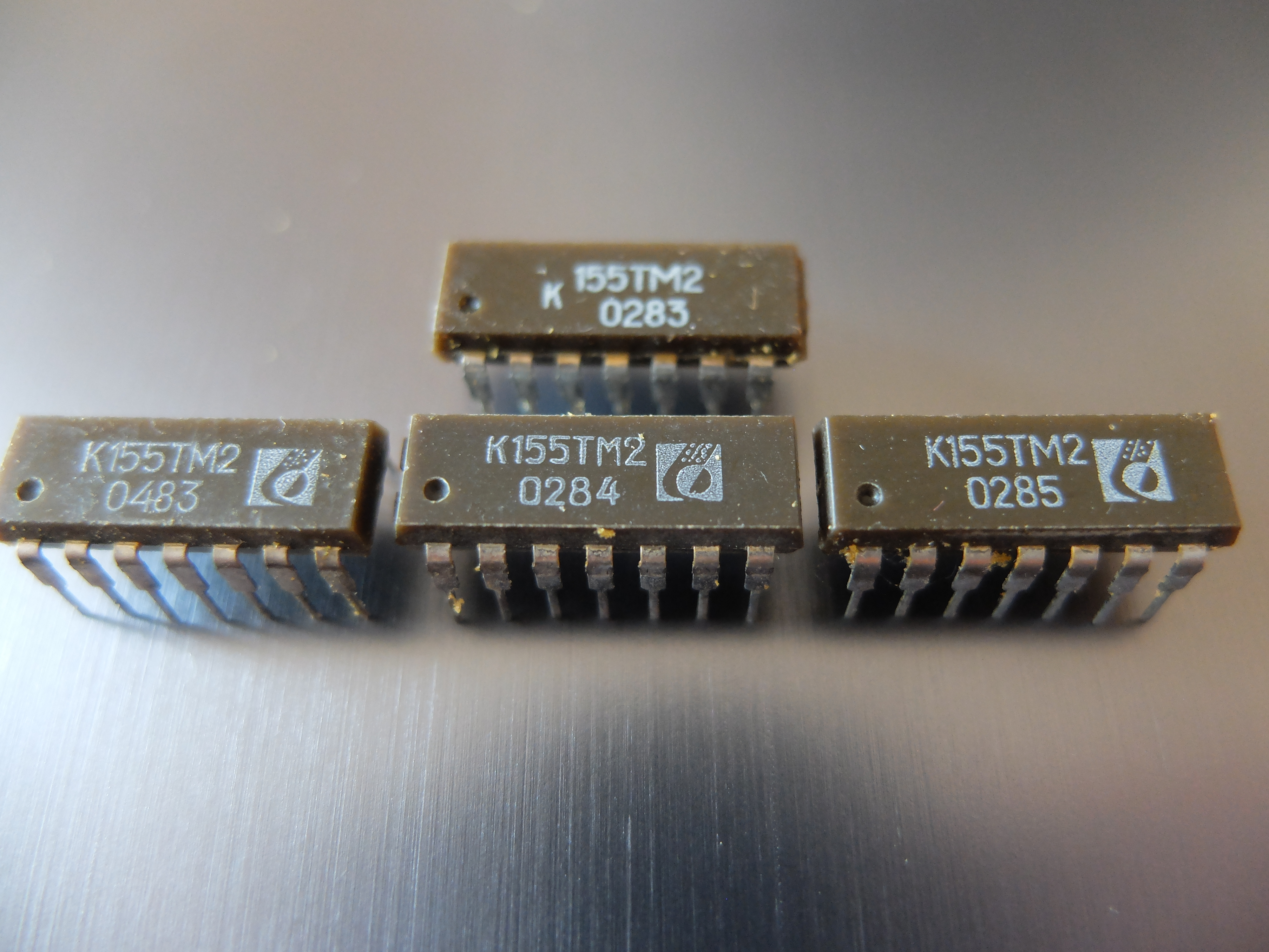 Integrated circuit K155TM2 - equivalent to 7474, dual D positive edge triggered flip-flop, asynchronous preset and clear - with the logo of the exporter (i.e. not the manufacturer) Elektronorgtechnica, Soviet Union